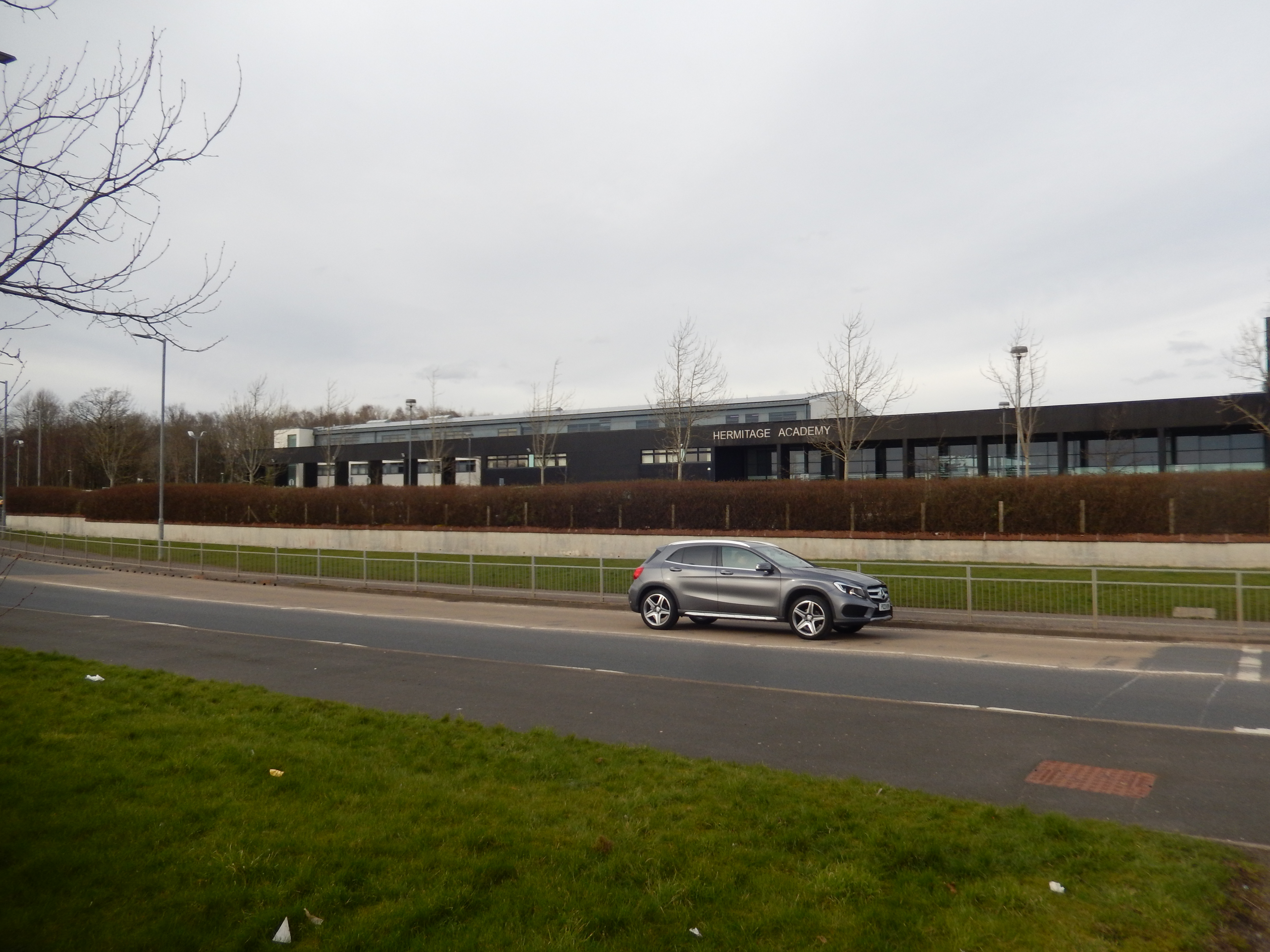 Hermitage Academy, Helensburgh. Photo taken from the entrance to the Waitrose supermarket across the road.